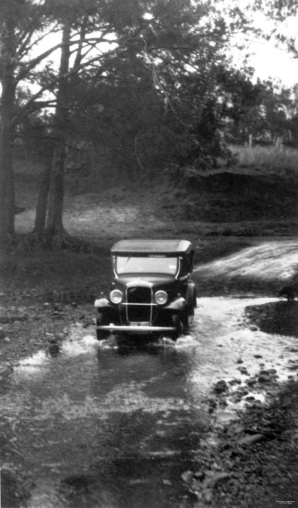 Driving across Palen Creek, 1934. An early model Austin car negotiates the water at a crossing over Palen Creek.